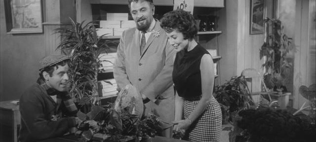 A scene from The Little Shop of Horrors. (Cropped.)